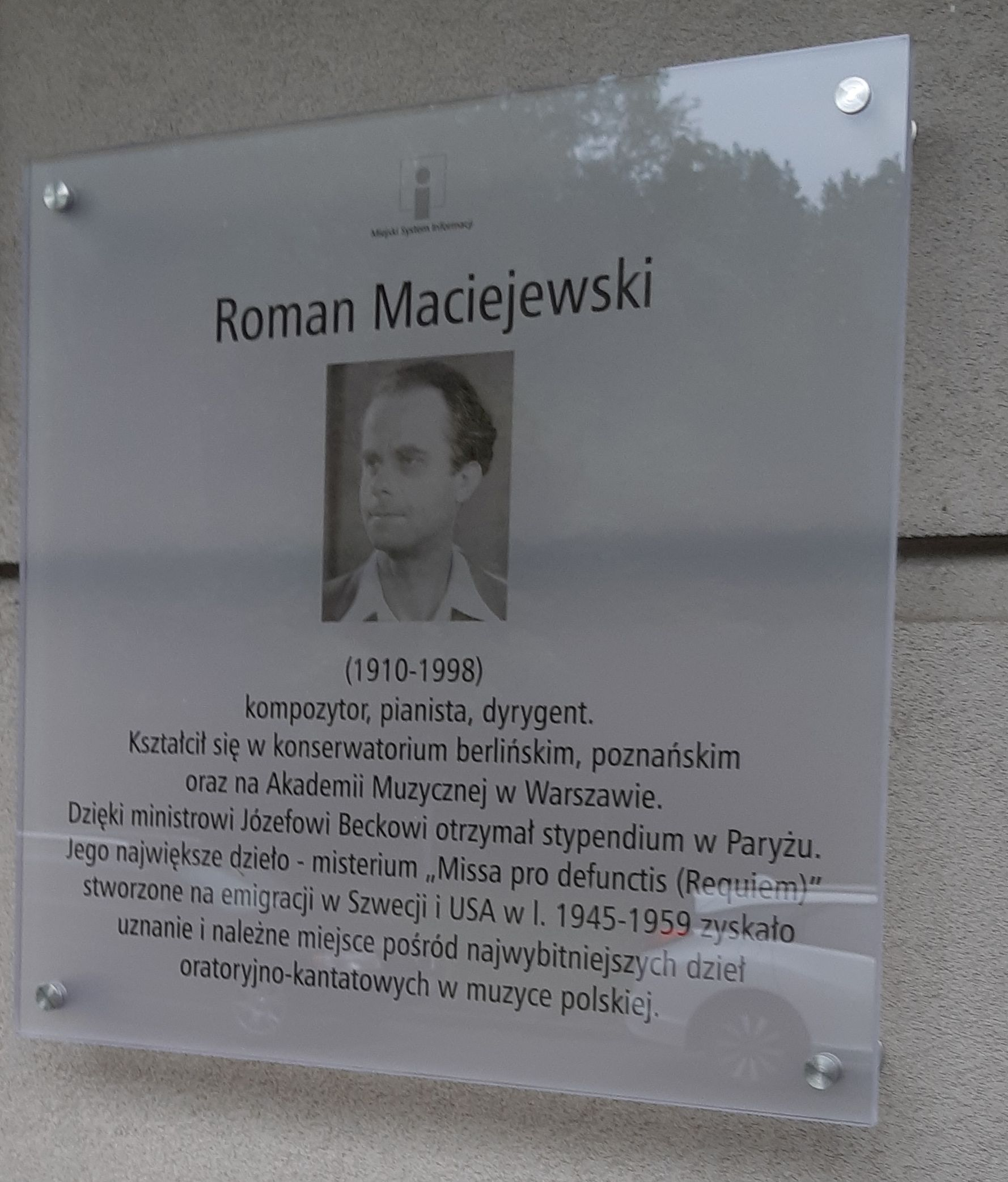 Tablica upamiętniająca Romana Maciejewskiego na ulicy jego imienia w Warszawie